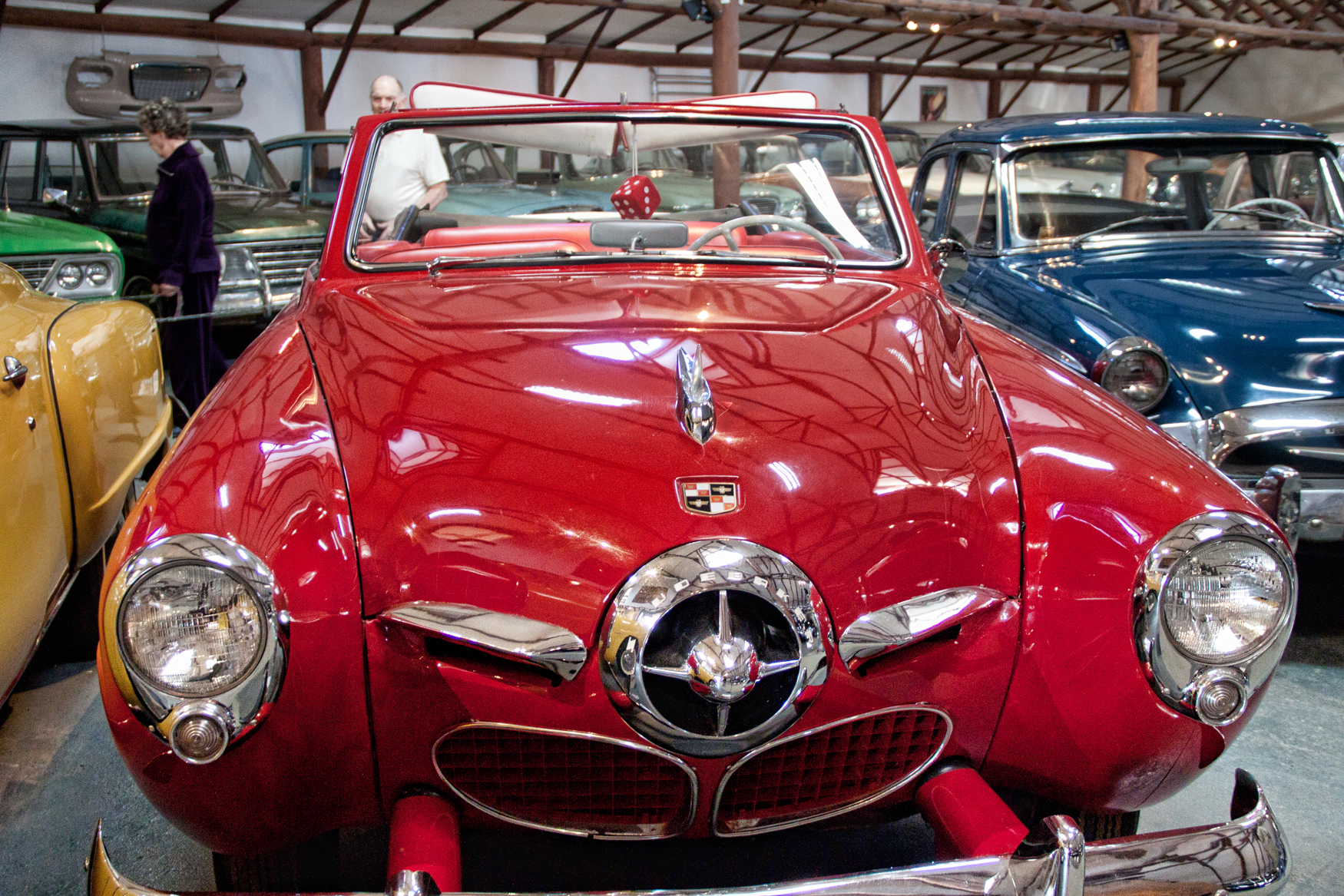 Studebaker 1950 Champion Convertible at Auto Museum Moncopulli, Chile.